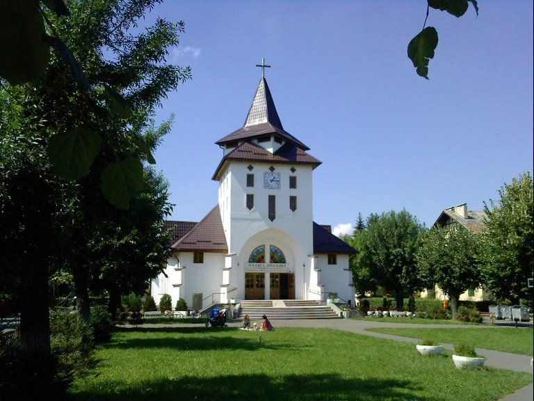 Braşov city, Catholic Church "Sf. Cruce"